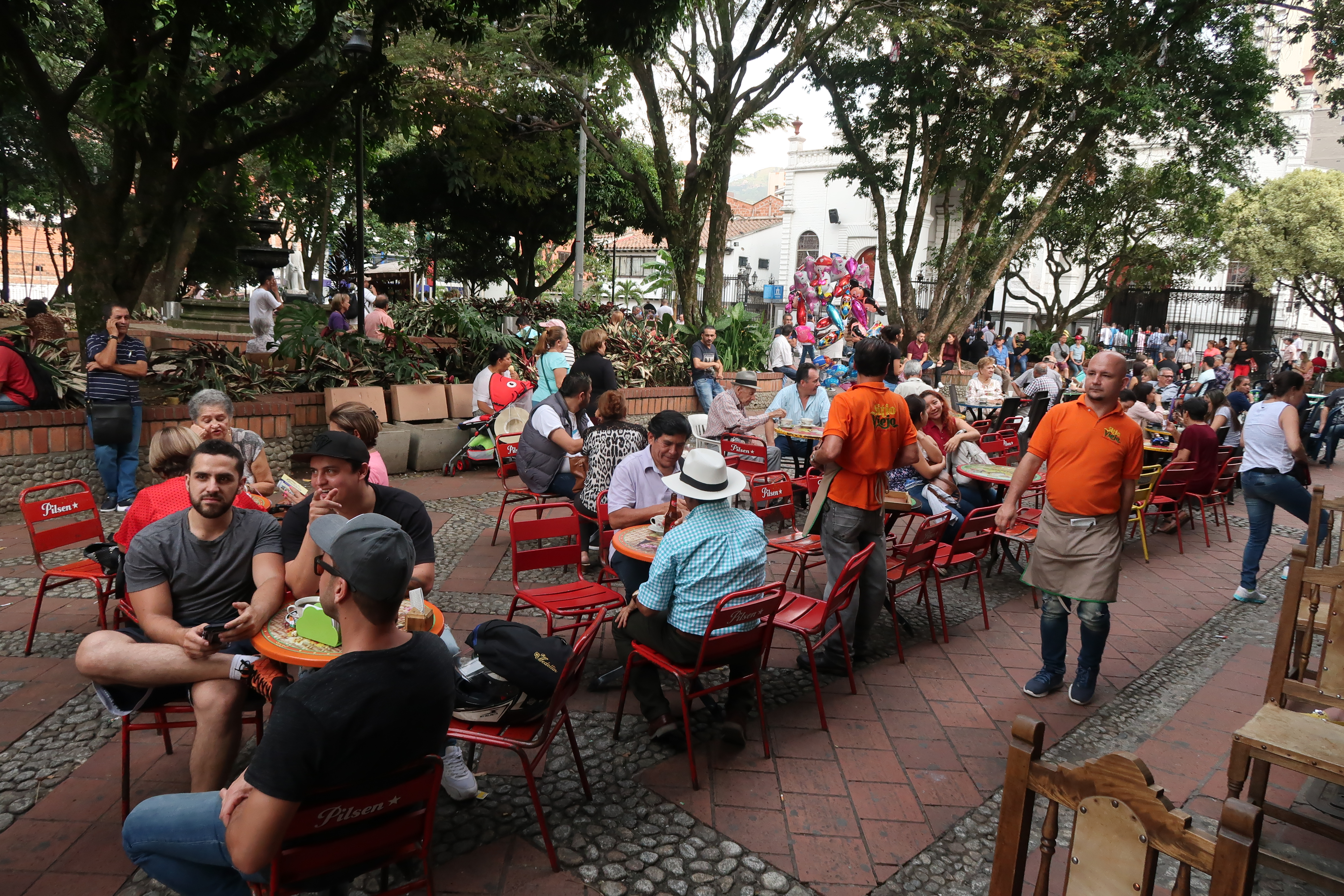 Residents and visitors sit in outside a pub in Sabaneta Parque